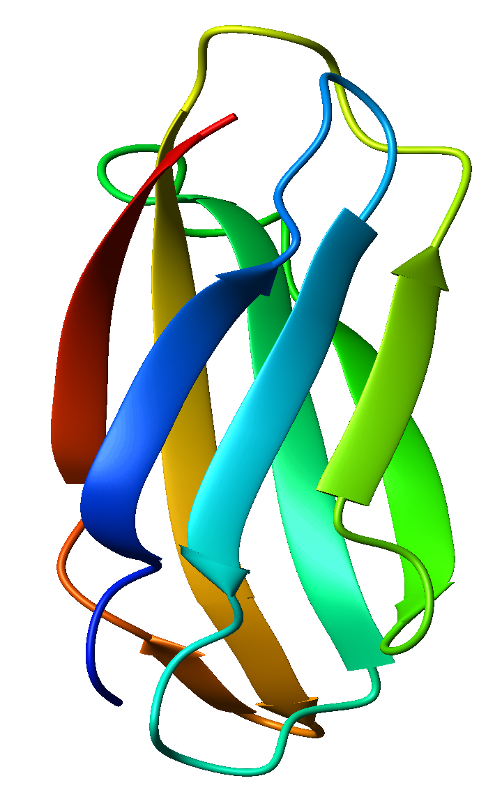 Fibronectin type III domain from human tenascin (example of immunoglobulin domain). Made with MOLMOL.